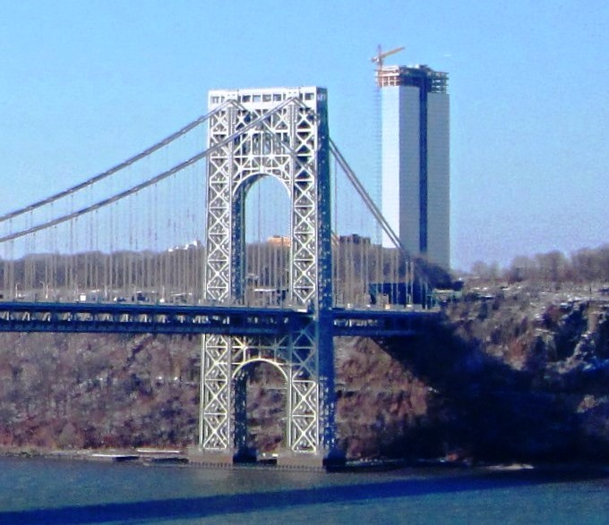 The New Jersey side of the George Washington Bridge as seen from West 187th Street at Chittenden Avenue in Hudson Heights.